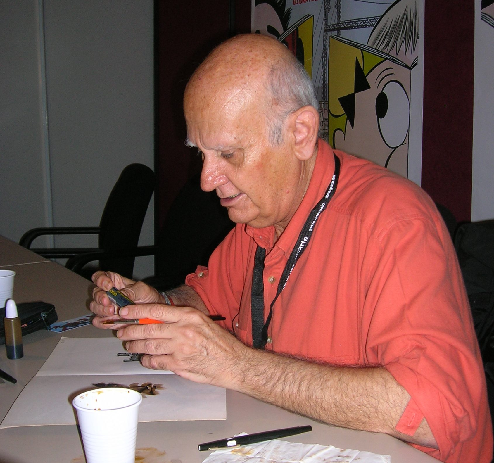 Juan Giménez, Argentinian comic artist in V Getxo Comic Con.